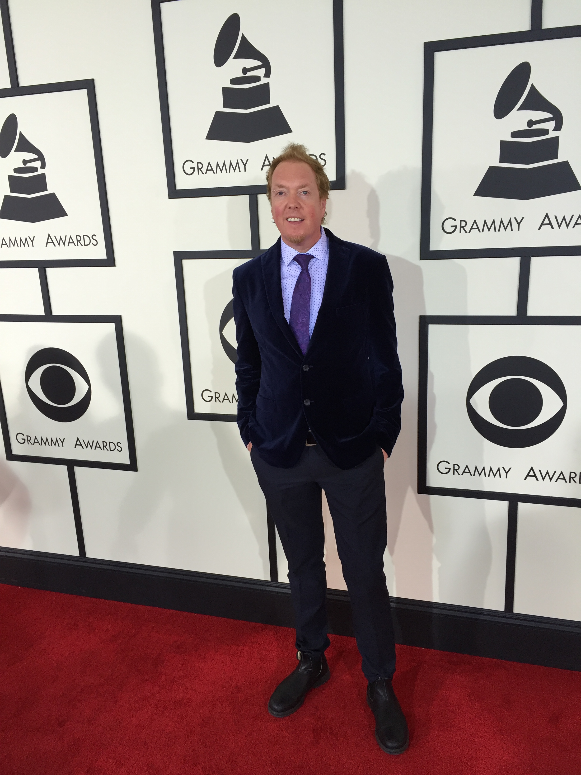 Dave Bassett Grammy Nominee 2016